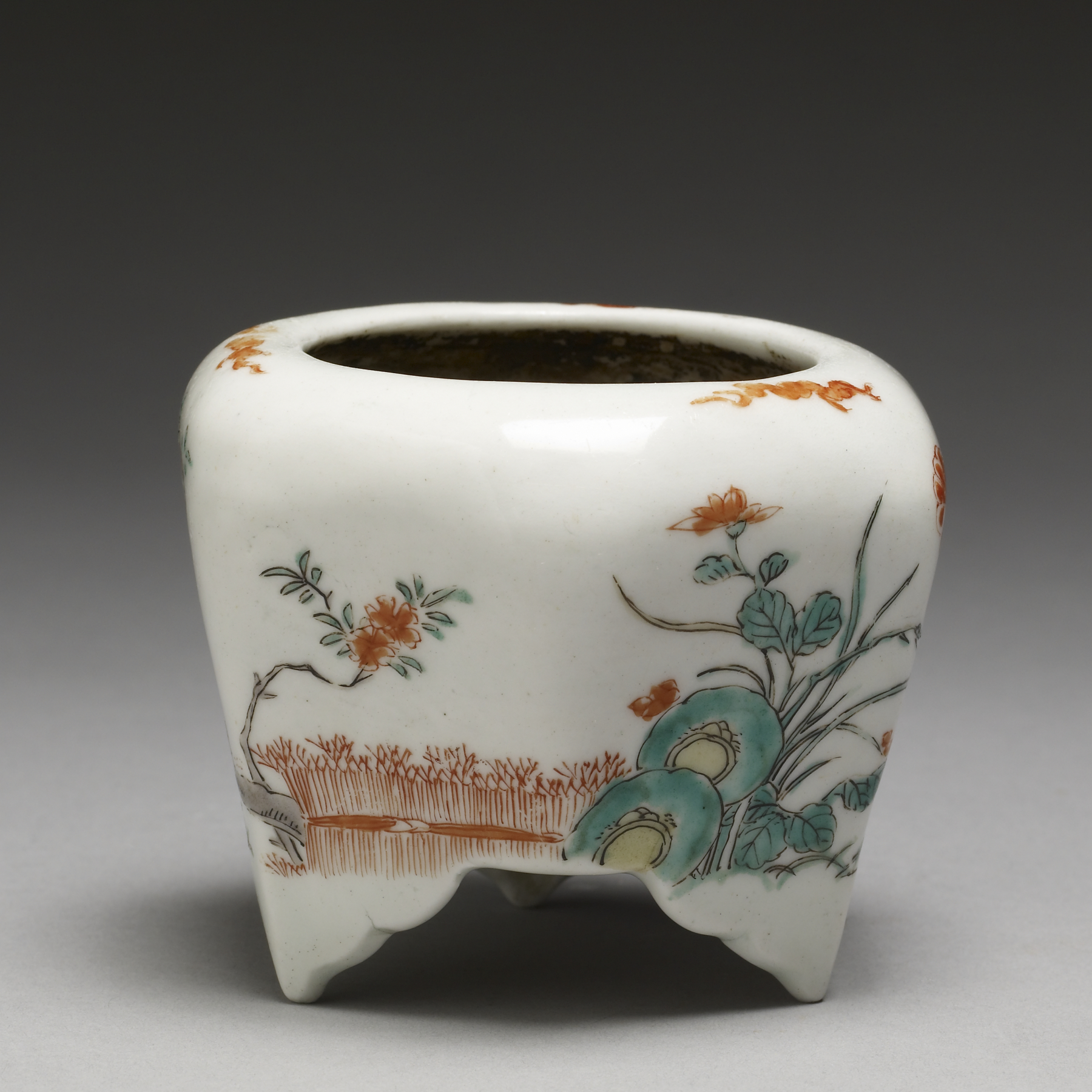 This is an example of Arita ware of the Kakiemon type.